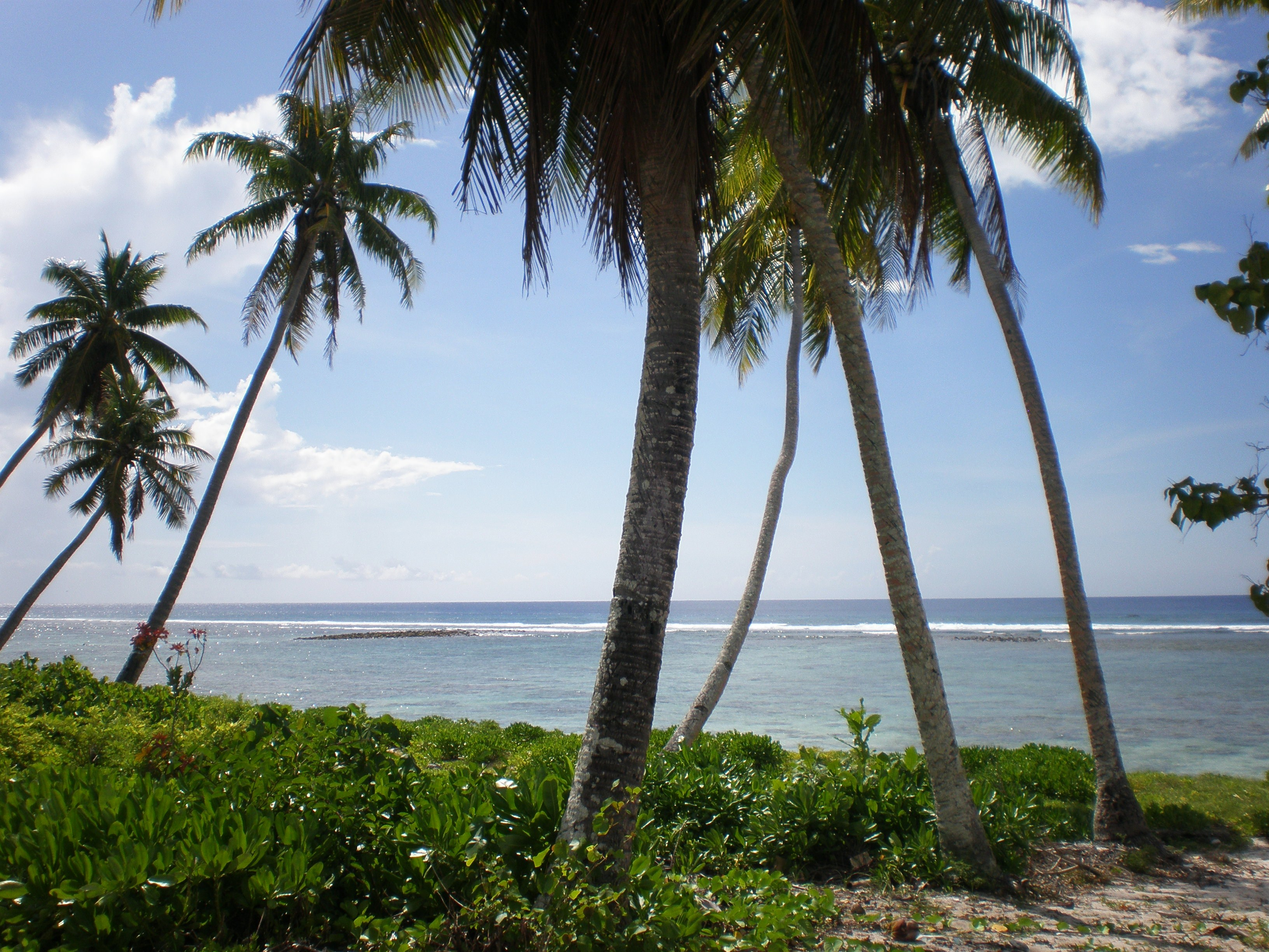 Coconut trees on the coast at Falealupo village, 2009